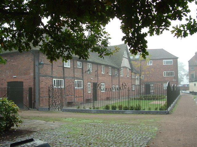 Part of The Commandery, beside the Worcester and Birmingham Canal, the photographer facing South towards Sidbury and that entrance "The West range, the long front towards the canal, mostly square-panelled framing, partly brick, especially the C16-C17 North extension. An early C19 industrial cross-wing projects towards the canal; to its North (on the left of the picture) the prominent gable-end of the hall range." (from: Alan Brooks, Nikolaus Pevsner The Buildings of England, Worcestershire 2007 Yale University Press)